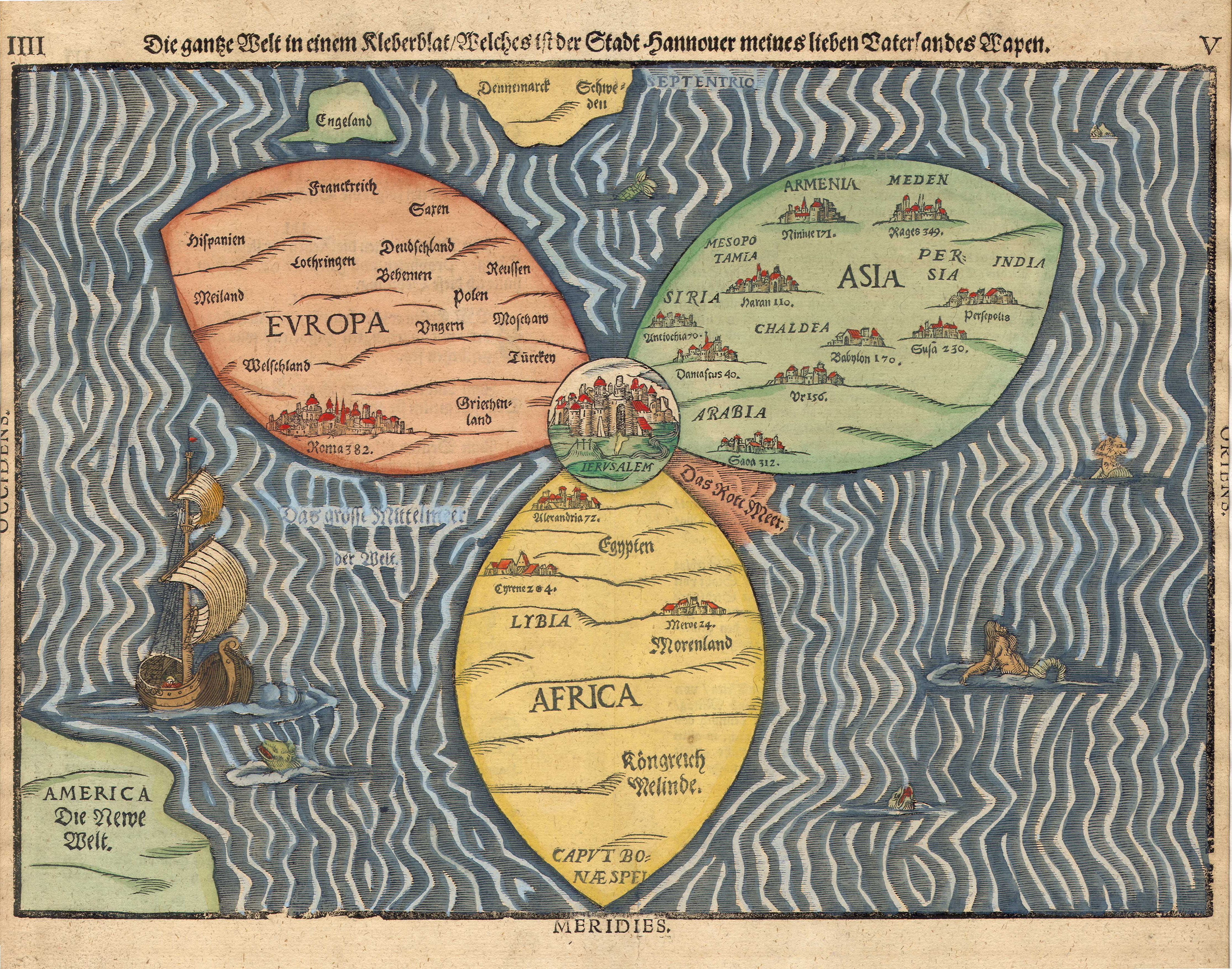 Stylized world map in the shape of a clover-leaf (the three classical continents of Europe, Asia, Africa), with Jerusalem at the center, with additional indication of Great Britain, Scandinavia and America / the New World. Page 4f. of Die eigentliche und warhafftige gestalt der Erden und des Meers (1581), printed in Magdeburg.